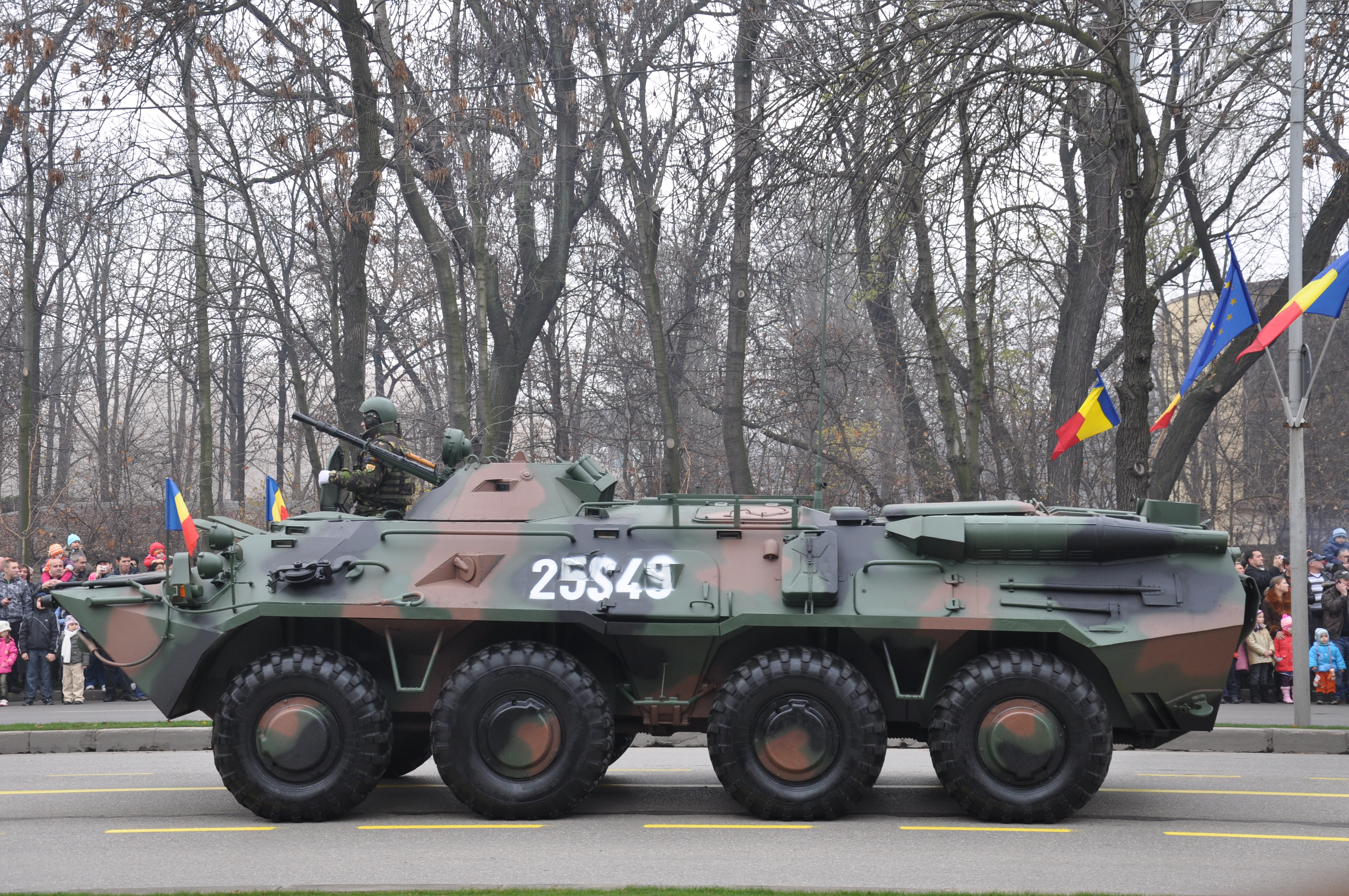 Romanian APC TAB B-33 Zimbru at National Day Parade, 2009